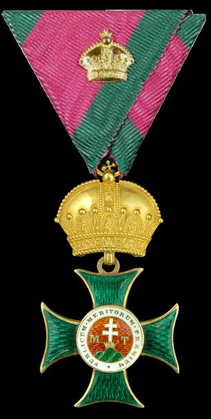 Royal Hungarian Order of Saint Stephen, Knight Commander "kleine" decoration